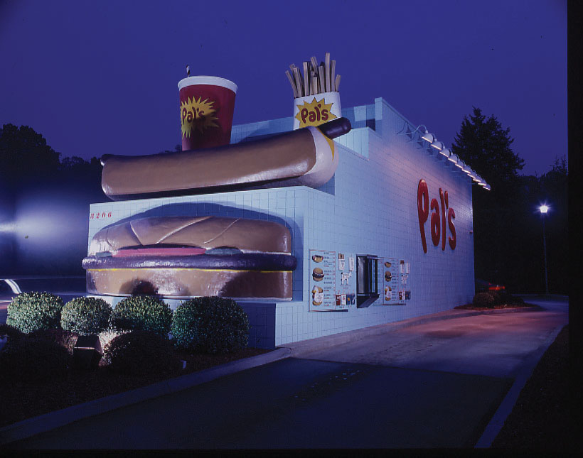 Even under the cover of darkness, the Pal's Sudden Service chain offers a beacon of good food and flavor.